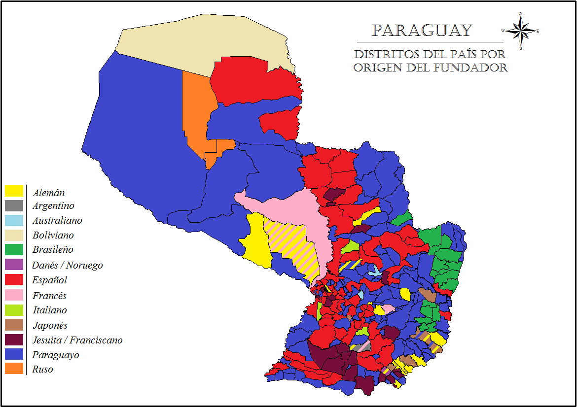 Description of the founders of the Paraguayan's Districts